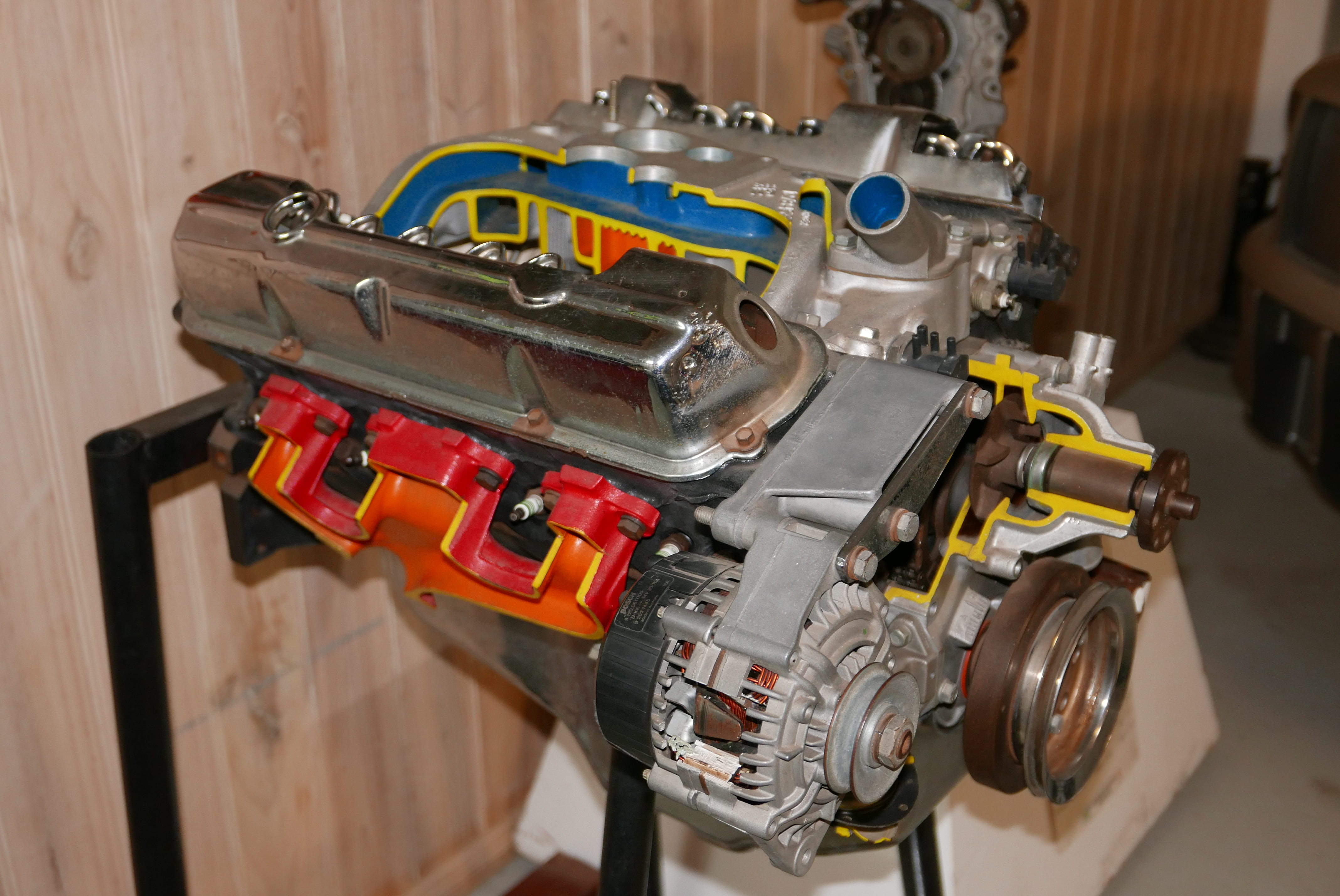 308 cu in Holden V8 engine. First introduced in 1969 as standard in the Holden Brougham and as an option on other Holden models from 1970 to 1977. Photographed at the National Holden Motor Museum, Echuca, Victoria, Australia.